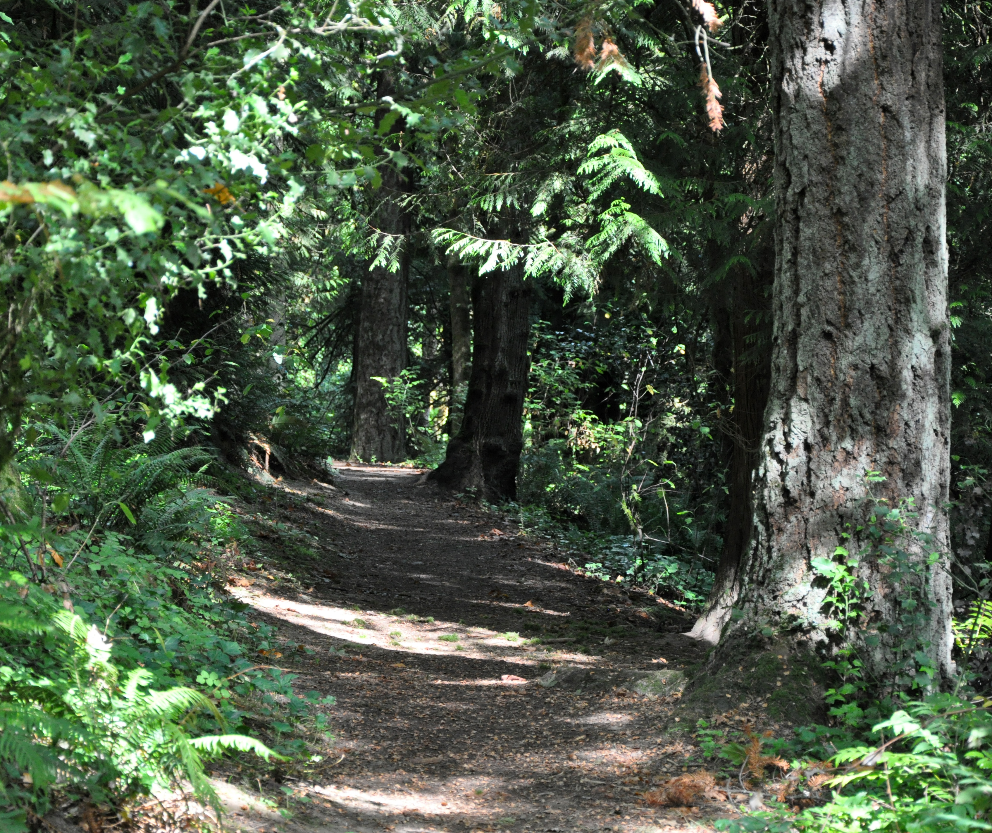 A forest path in Marshall Park, Portland, Oregon, United States.